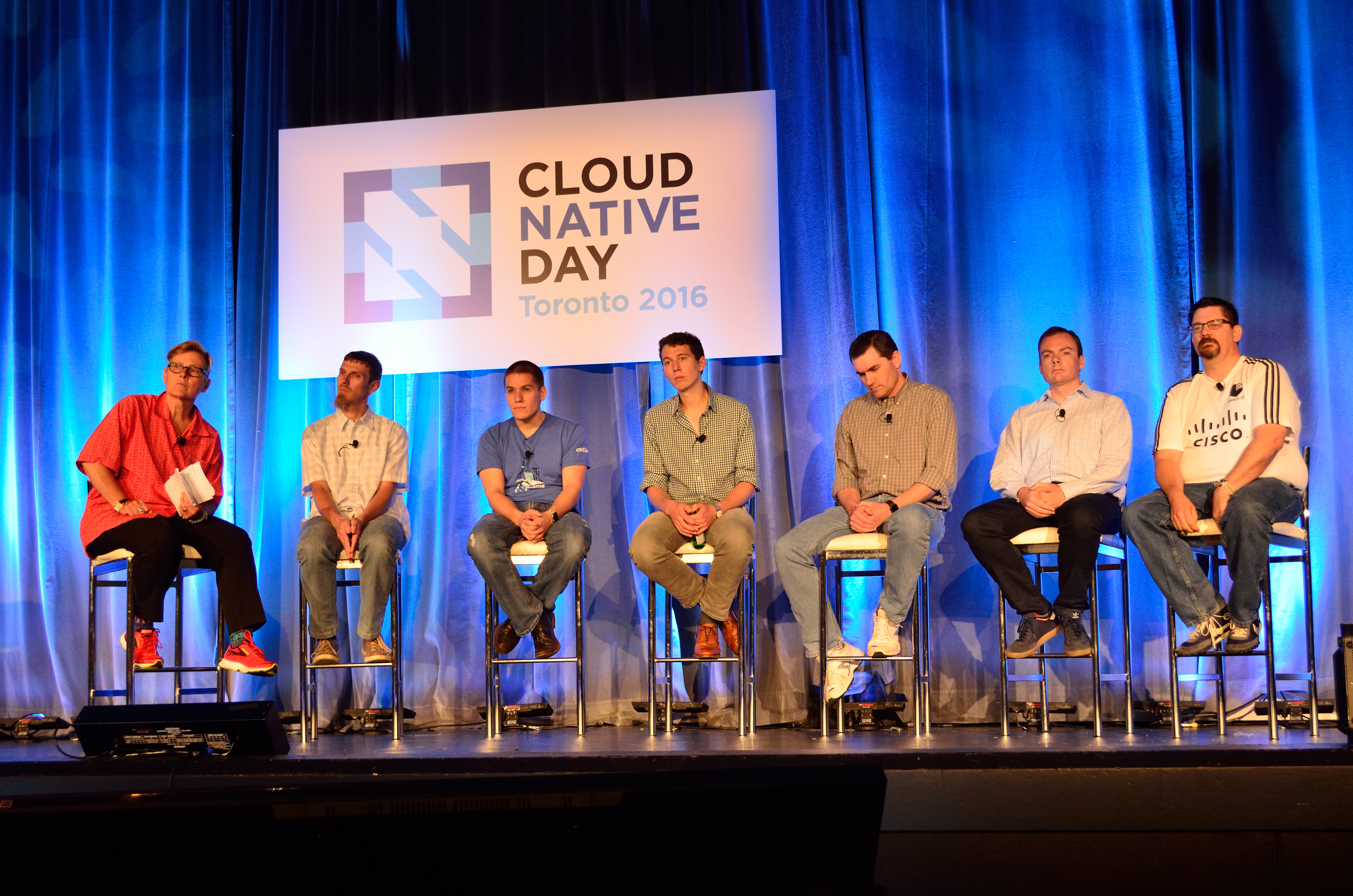 CloudNativeDay 2016